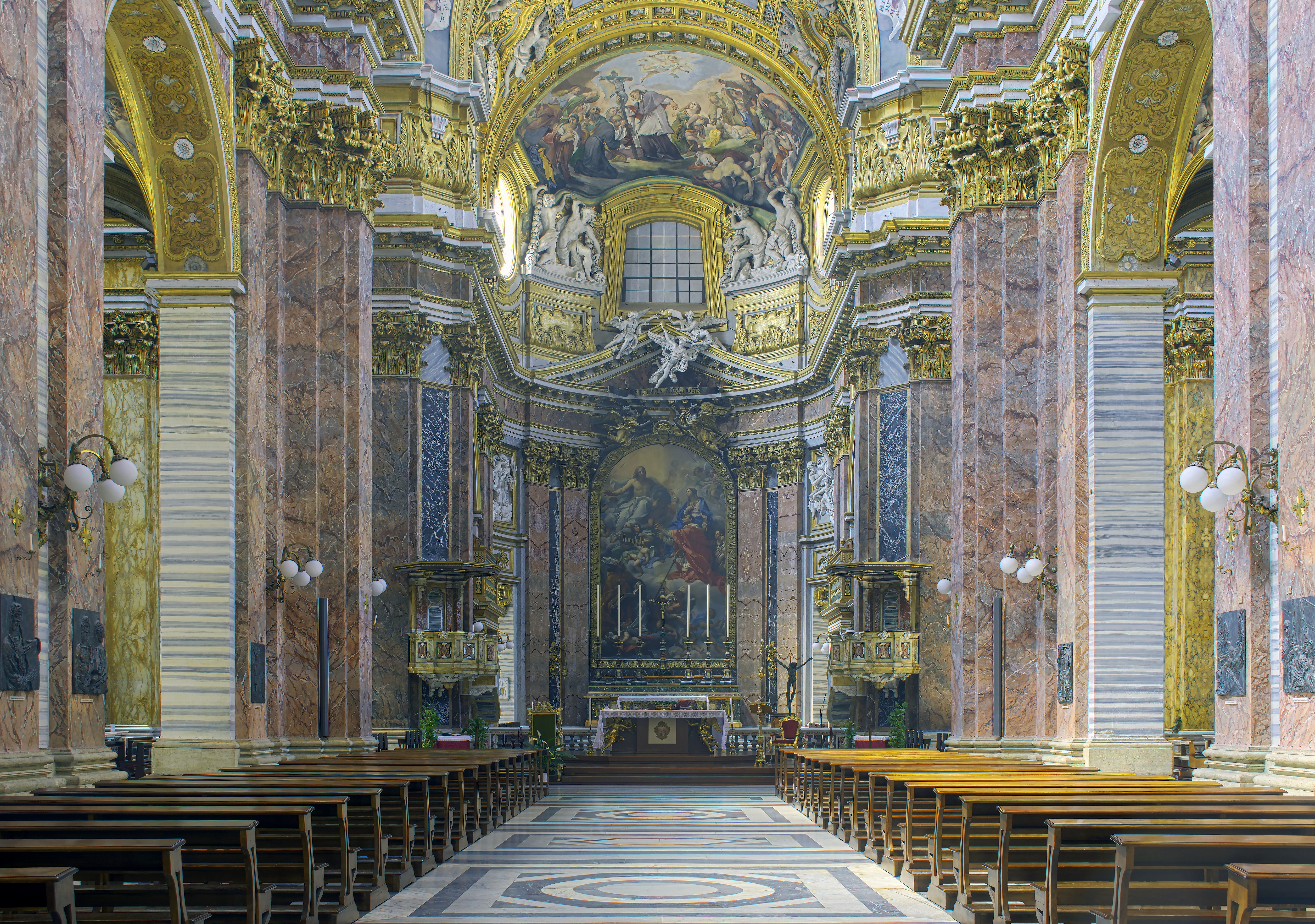 San Carlo al Corso (Rome) HDR